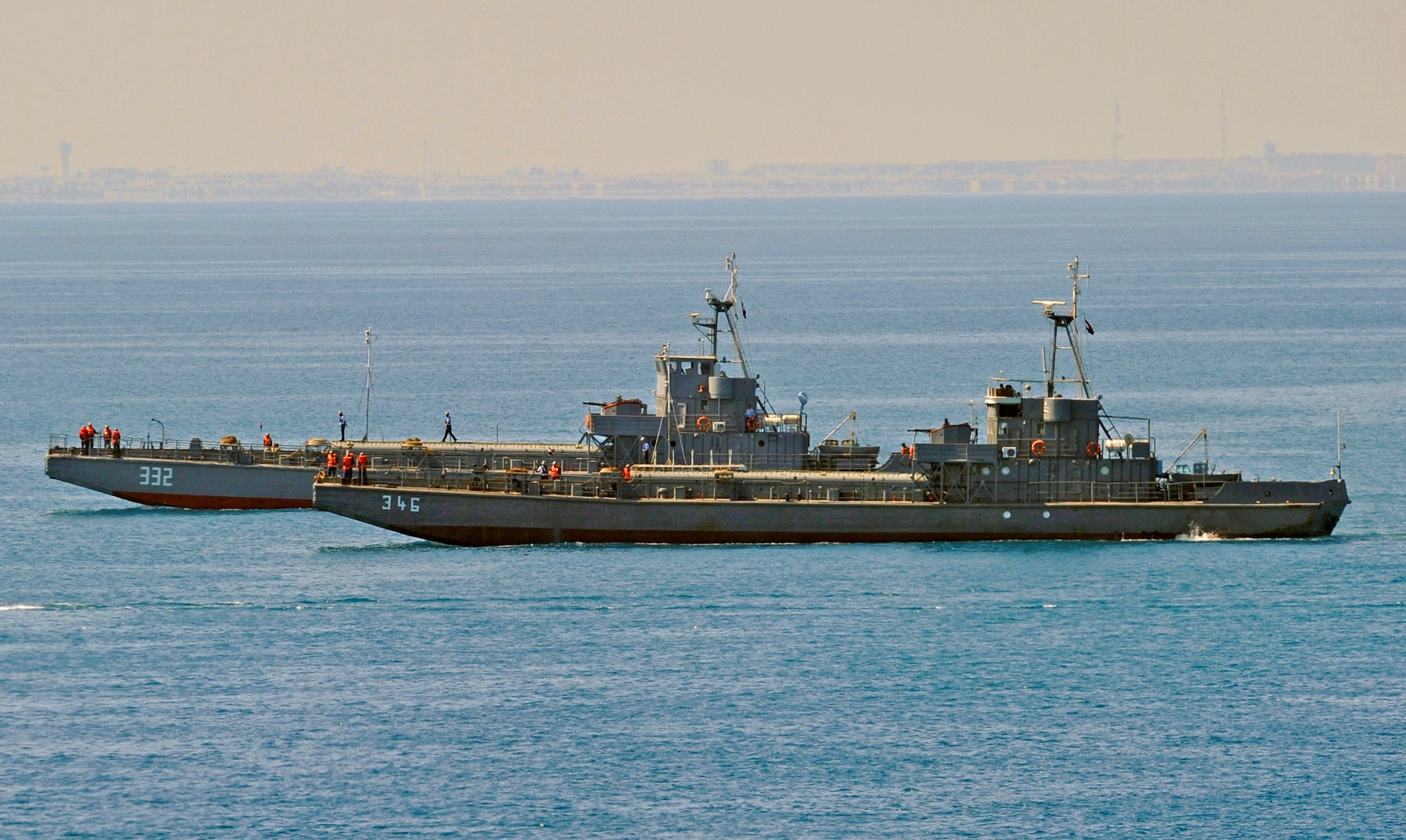 Two Egyptian navy amphibious landing craft make their way to shore as part of an amphibious assault demonstration during Bright Star 2009.